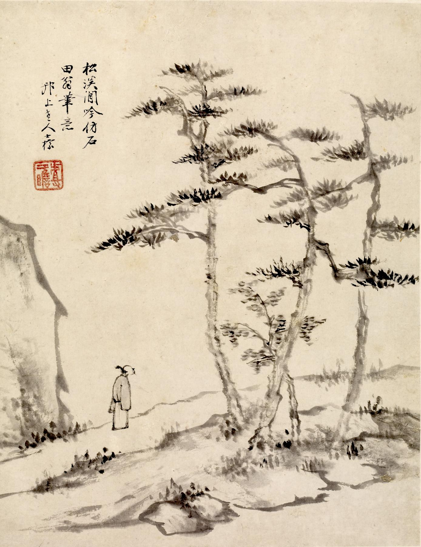 Shen Chou (1427-1509), a leading scholar-painter of the Ming Dynasty, was known for his spare brushwork.